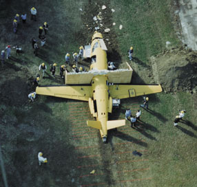 NASA researchers crash-tested a Lear Fan 2100 at the Impact Dynamics Research Facility to evaluate improved crashworthiness design features that will increase human survivability and reduce injuries in the event of an accident.